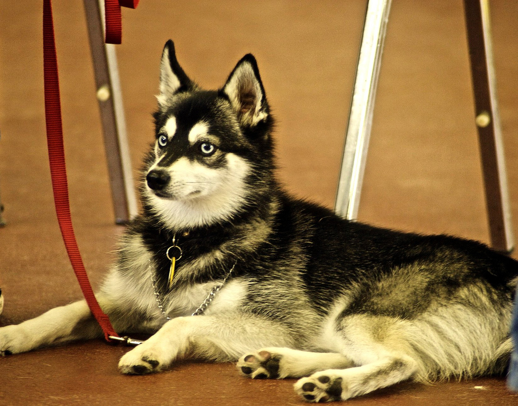 Alaskan Klee Kai